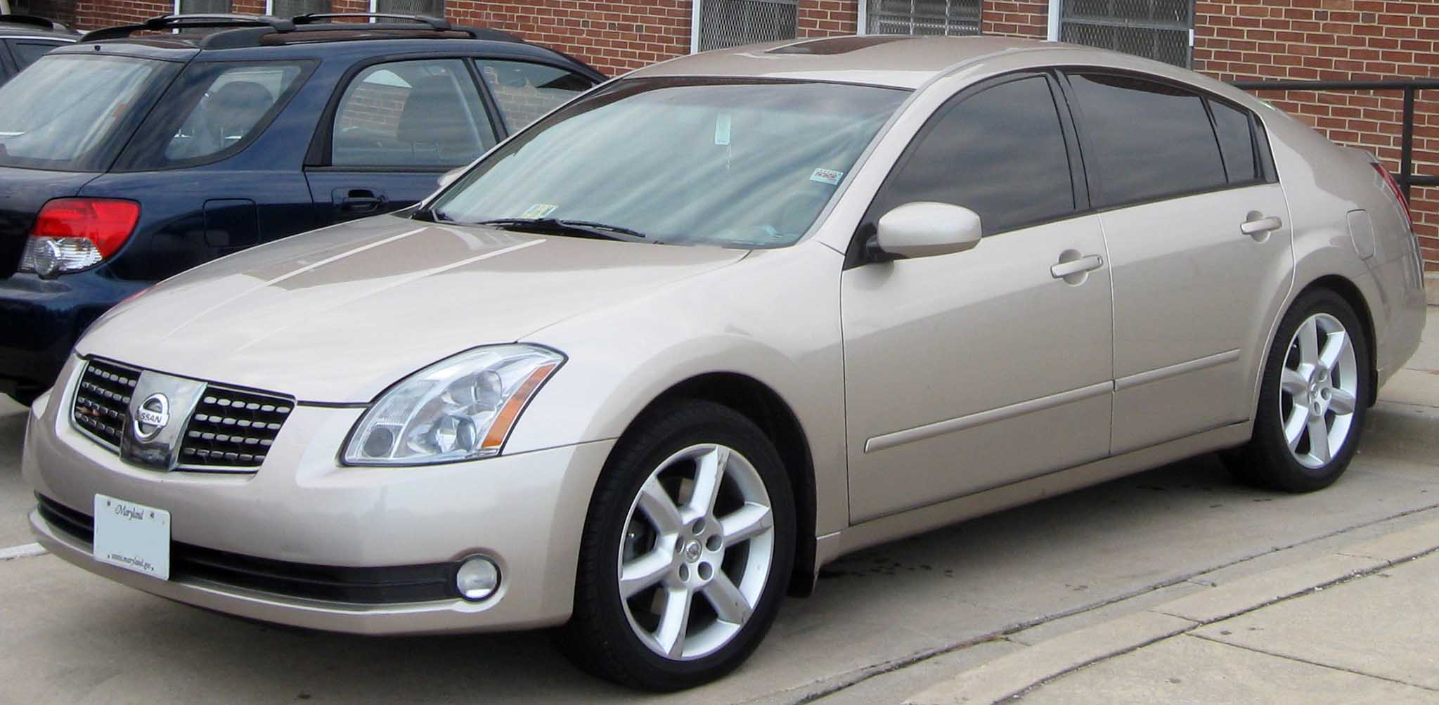 2004-2006 Nissan Maxima photographed in College Park, Maryland, USA.